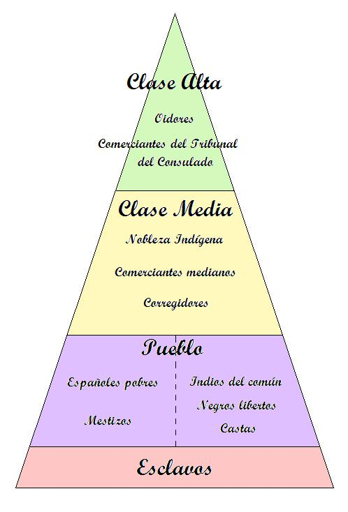 Pyramid-shaped graphic showing the social classes in the Viceroyalty of Peru: Slaves (pink); Lower Class (fuchsia), which included poor spaniards, indian people, mestizos, free dark-skinned people and the castas; Middle Class (light yellow), where middle traders, noble indians and corregidors were included; and Upper Class (green), made up by oidors and Tribunal del Consulado's traders.